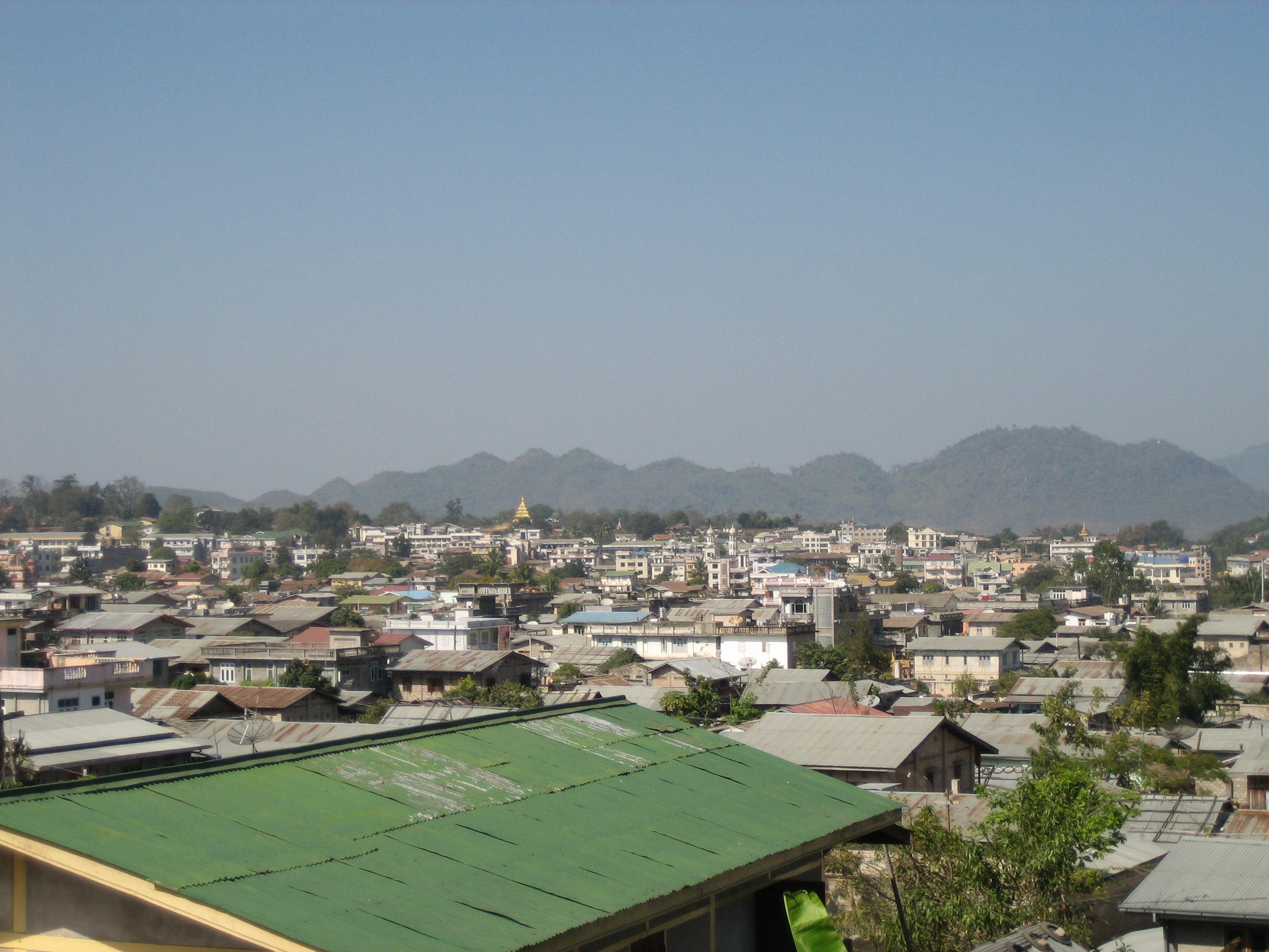 lashio sight